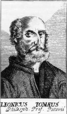 Leonicus Tomæus